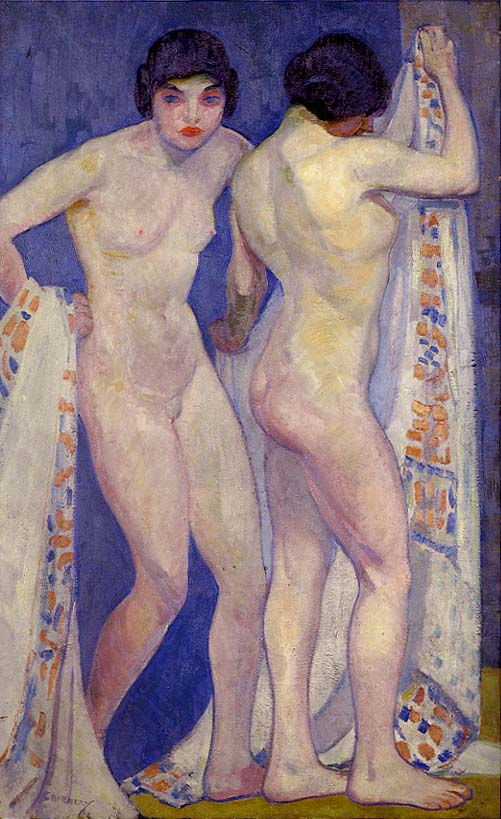 Kathleen McEnery (Cunningham), American, 1885-1971 Going to the Bath, ca. 1905-1913 Shown at the 1913 Armory Show